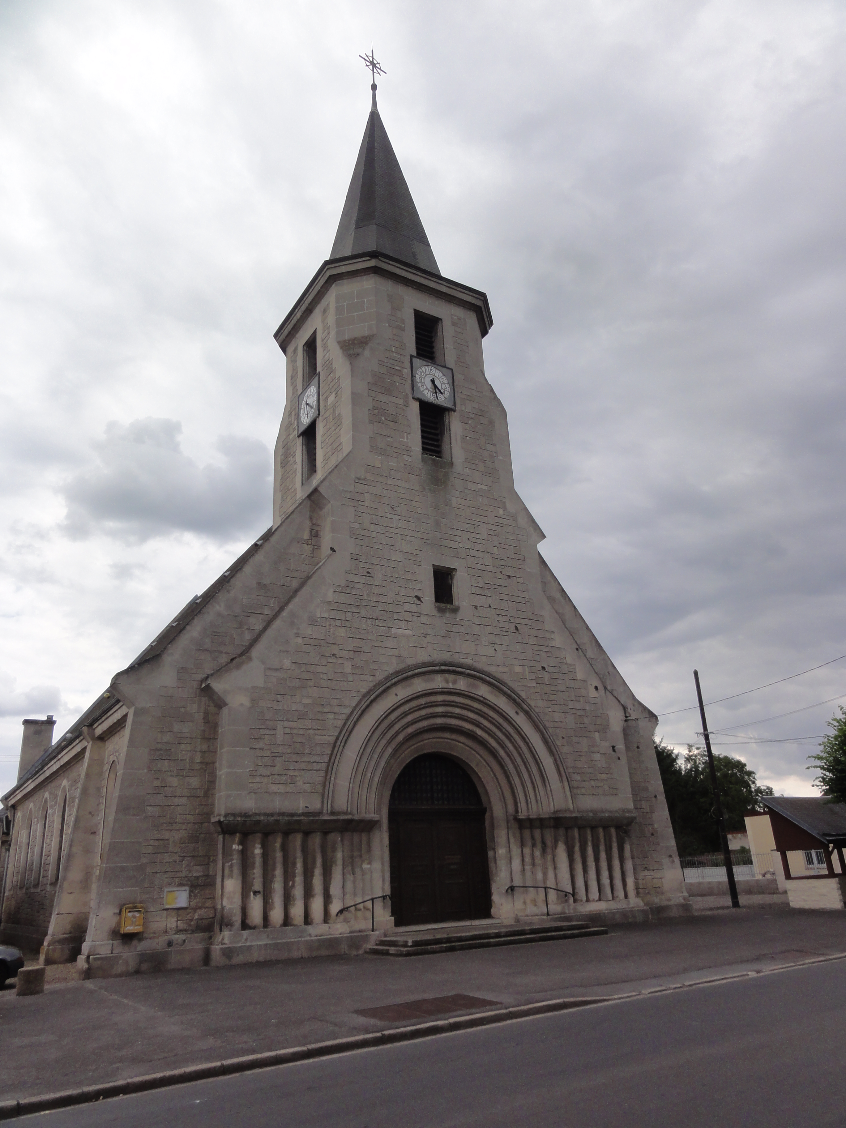 Sinceny (Aisne) église Saint-Médard